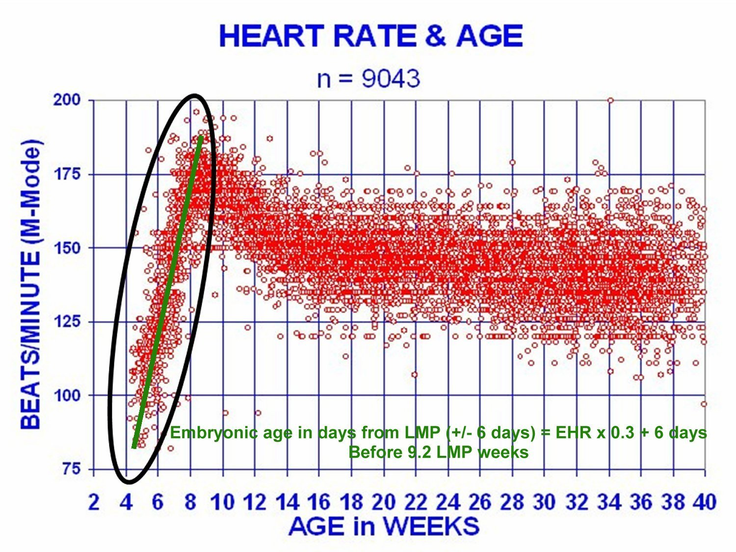 DuBose TJ, DuBose TJ, Cunyus JA, & Johnson L; Embryonic Heart Rate and Age. J Diagn Med Sonography 1990; 6:151-157. Schats R, Jansen CAM, & Waldimiroff JW; "Embryonic heart activity: appearance and development in early human pregnancy"; Brit J Obstet and Gynaecol, 1990; 97:989-994. Qasim SM, Sachdev R, Trias A, et al; The predictive value of first trimester embryonic heart rates in fertility patients. Obstetrics & Gynecology. 89(6):934-6, 1997 June; DuBose TJ; FETAL SONOGRAPHY, Chapter 12 Heart Rate; W. B. Saunders Co. 1996; p. 274-263.